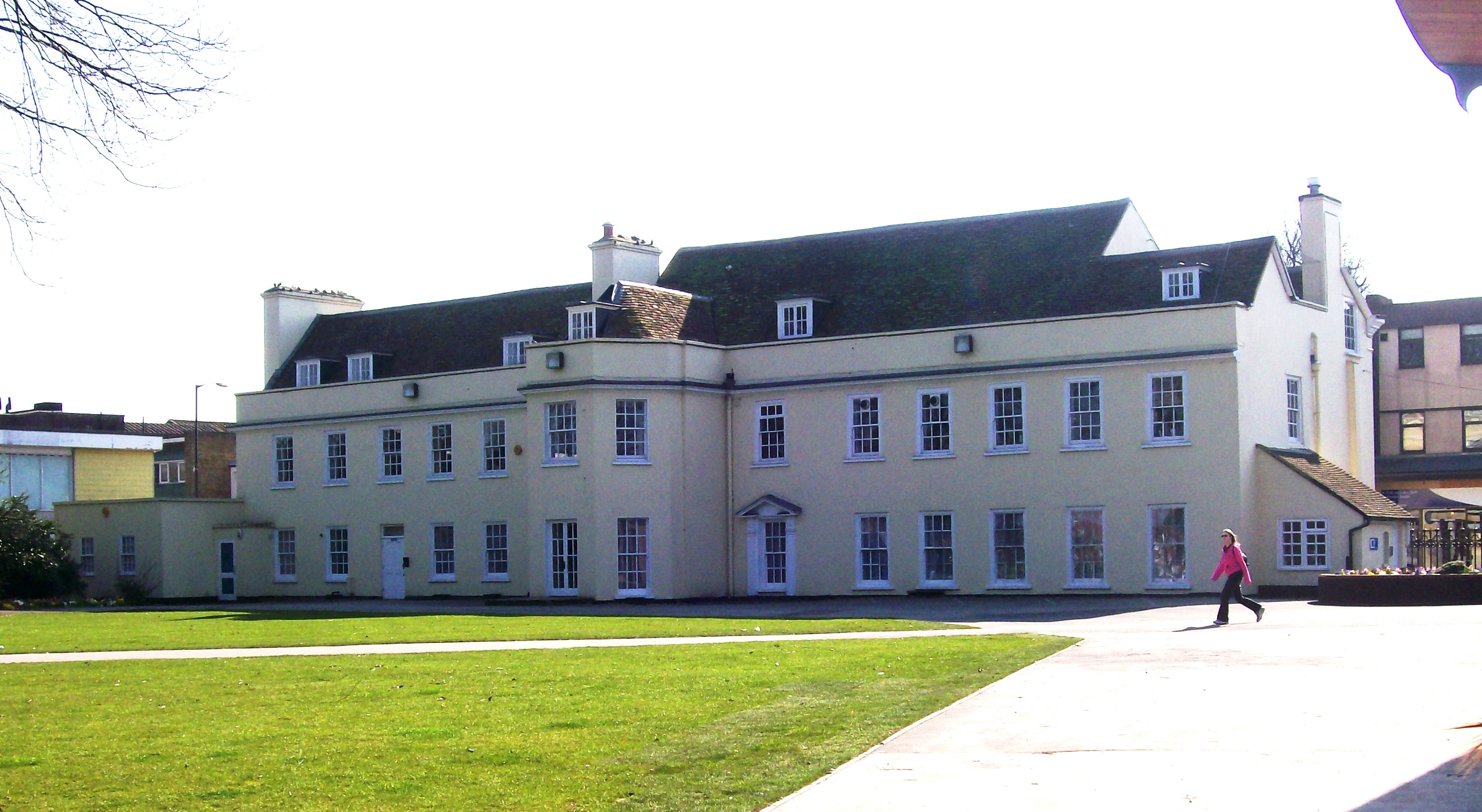 I (Natalie Warren) took this. Grove House in Dunstable, Bedfordshire.